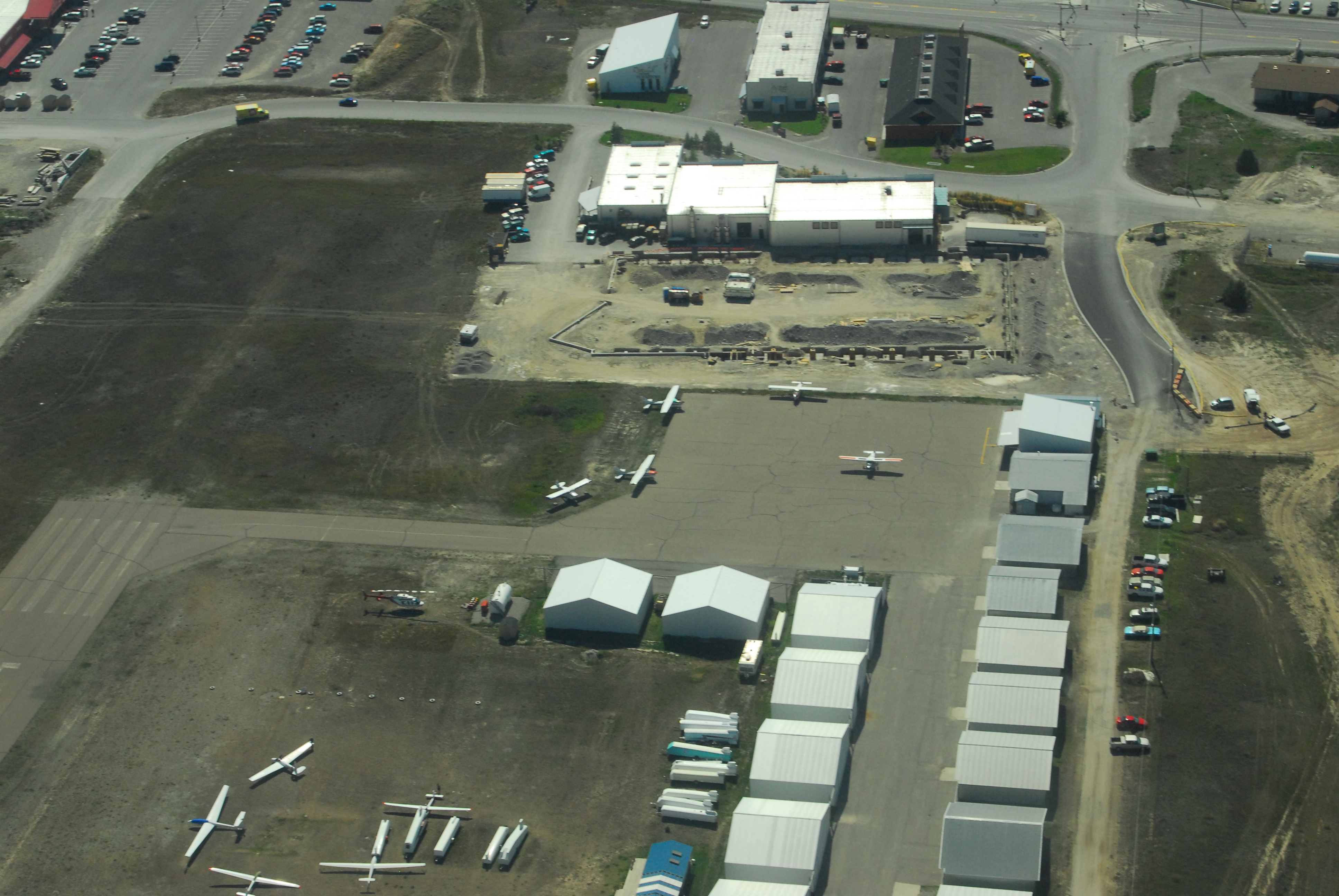 Overlook of Inveremere Airport in Inveremere, British Columbia